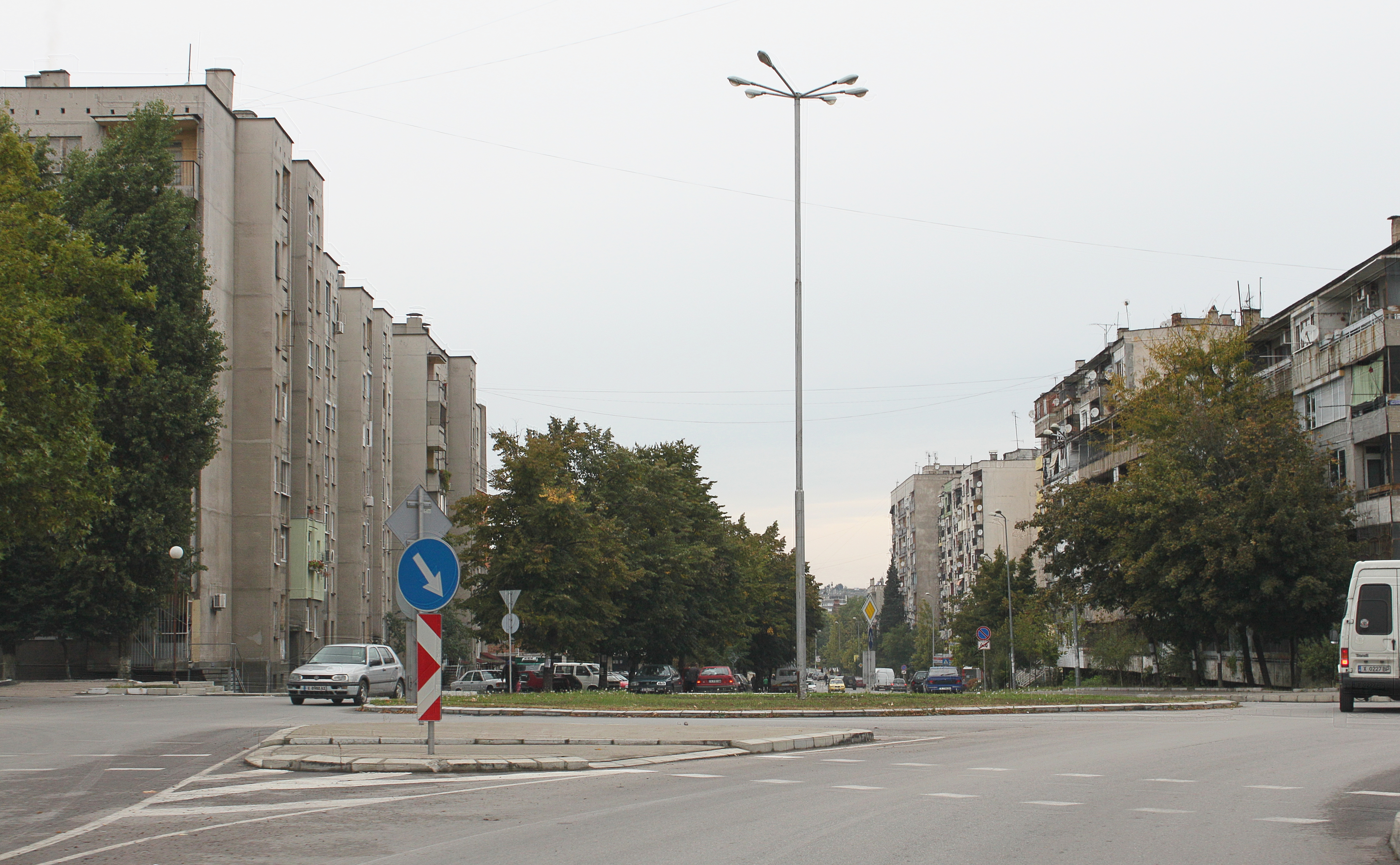 Harmanli, Bulgaria